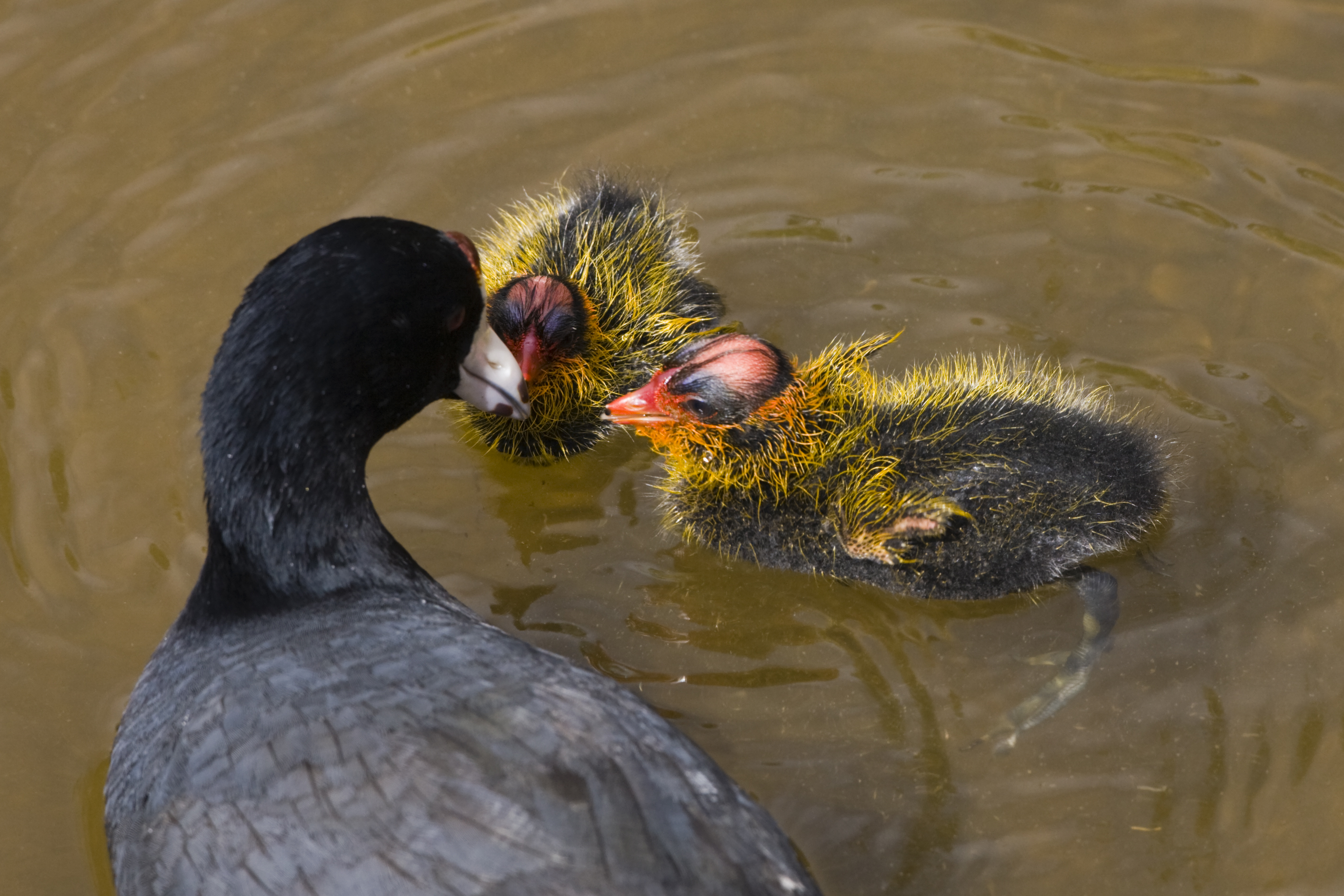 American Coot (Fulica americana) family at the Cloisters City Park pond in Morro Bay, CA 04 June 2007 04june2007 - Canon 5D with 300mm IS lens w/ 12mm extension tube on solid tripod